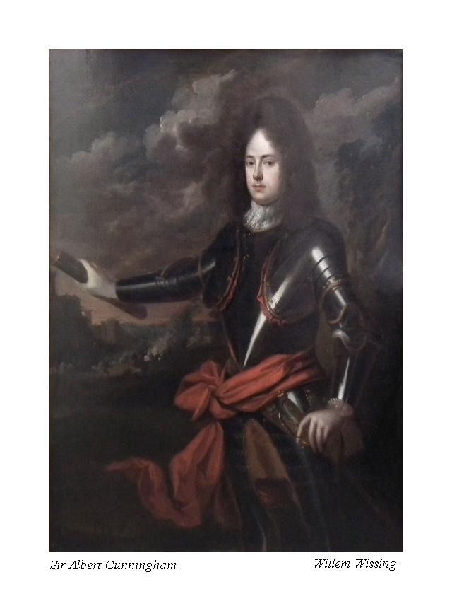 Portrait of Sir Albert Cunningham, first colonel of the 6th (Inniskilling) Dragoons